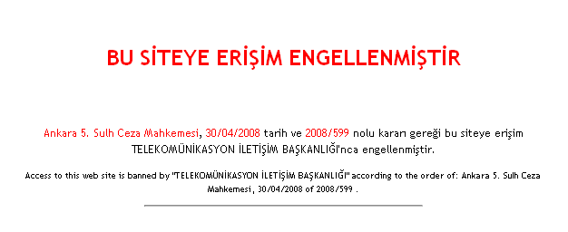 YouTube is blocked by a court order in the country of Turkey